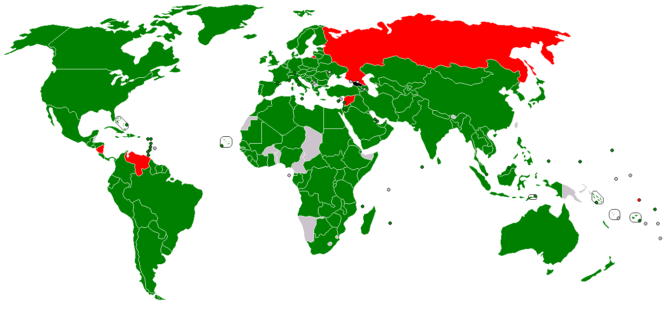 Foreign relation of Georgia: Diplomatic relations established No diplomatic relations established Diplomatic relations terminated